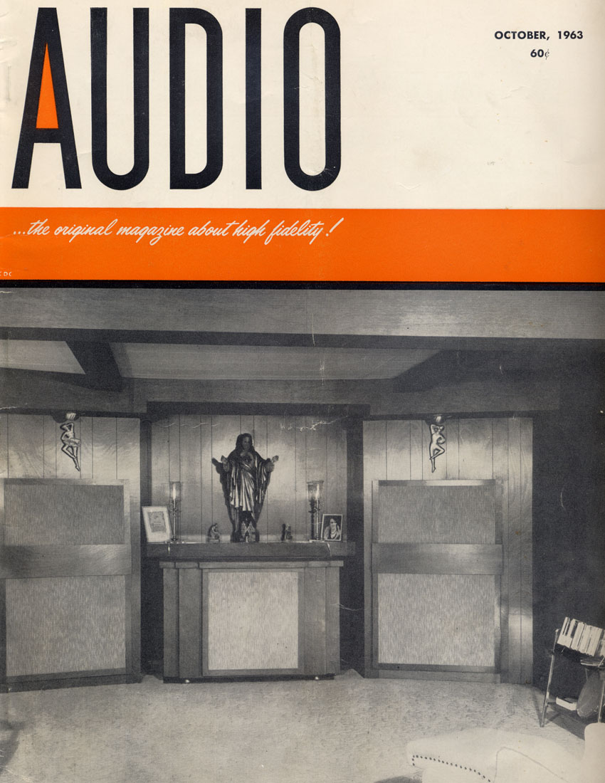 Audio, October 1963, Vol 47, No. 10. C.G. McProud, Publisher. David Saslaw, Editor. Cover shows the home system of Mr. and Mrs. Vincent Barsotti of Des Plaines, Illinois. The folded horn enclosures were built by Mr. Barsotti from plans provided by the loudspeaker supplier, Jensen. The center console holds the McIntosh amplifiers and the Scott FM tuner. This magazine is 11.75 by 9 inches (292 by 229 mm) and has 80 pages.